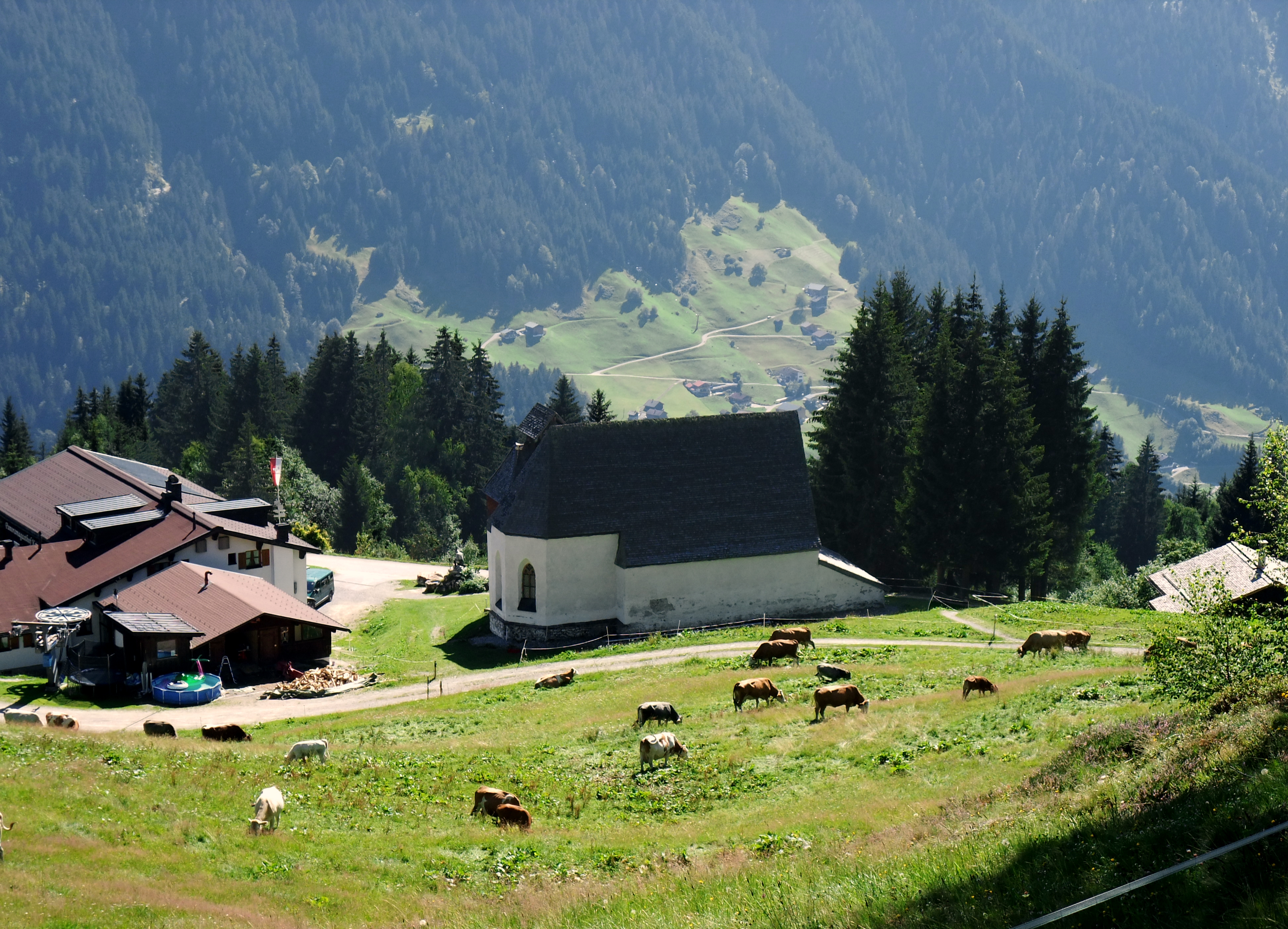 Montafon is a 39 km long valley situated in the westernmost federal state Vorarlberg of Austria. View to the Church St. Agatha in Kristberg.